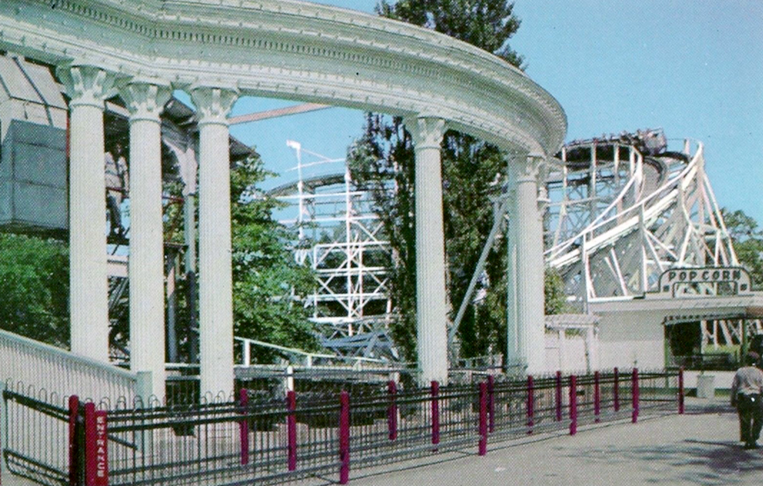 Postcard view of the Bobs roller coaster at Riverview Park, Chicago.